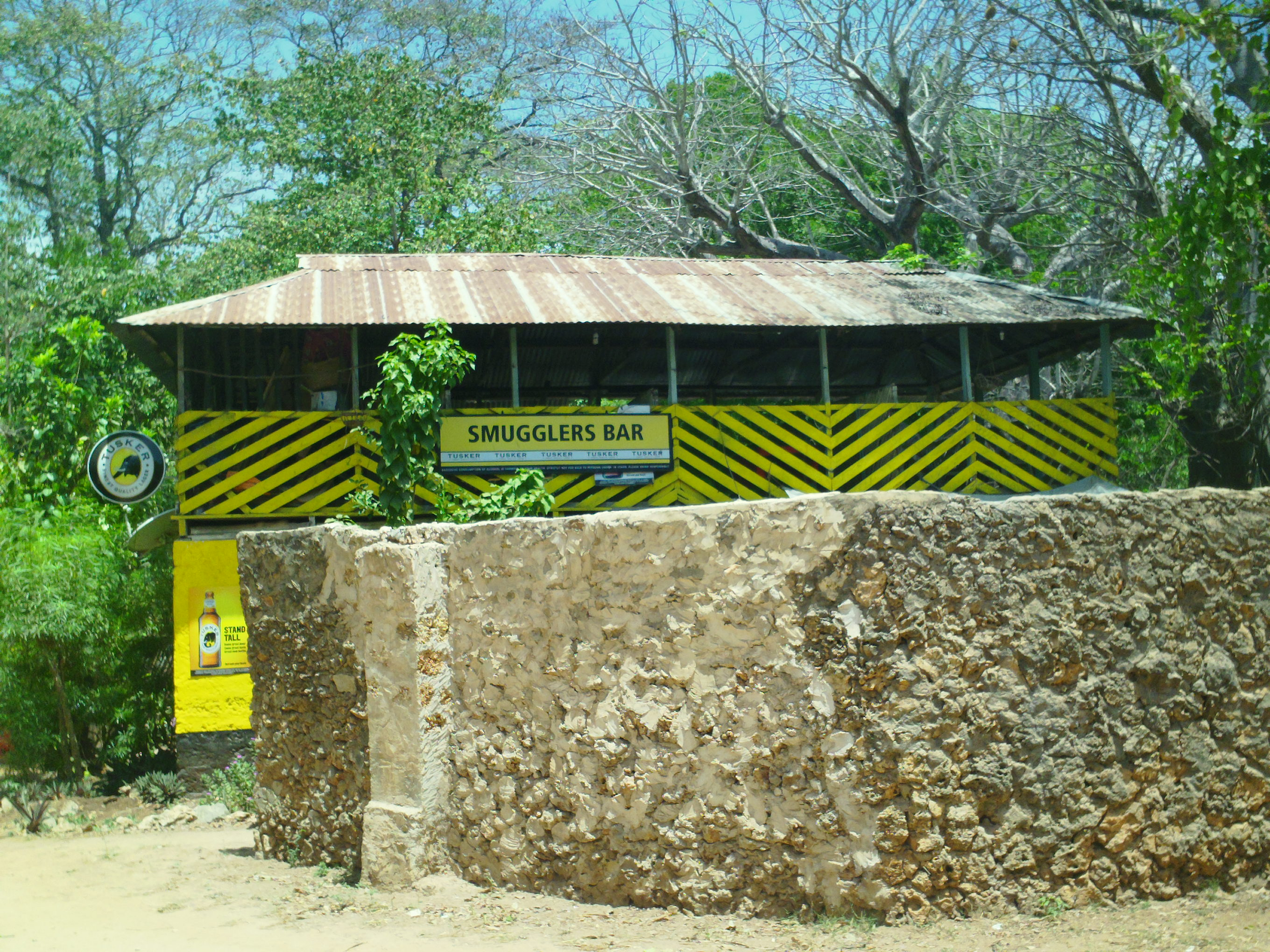 Smuggler's bar in Shimoni.